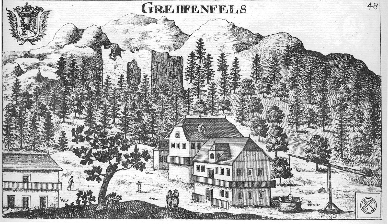 Castle of Greifenfels in the Carinthian municipality Ebenthal in Kärnten in Carinthia / Austria / European Union.